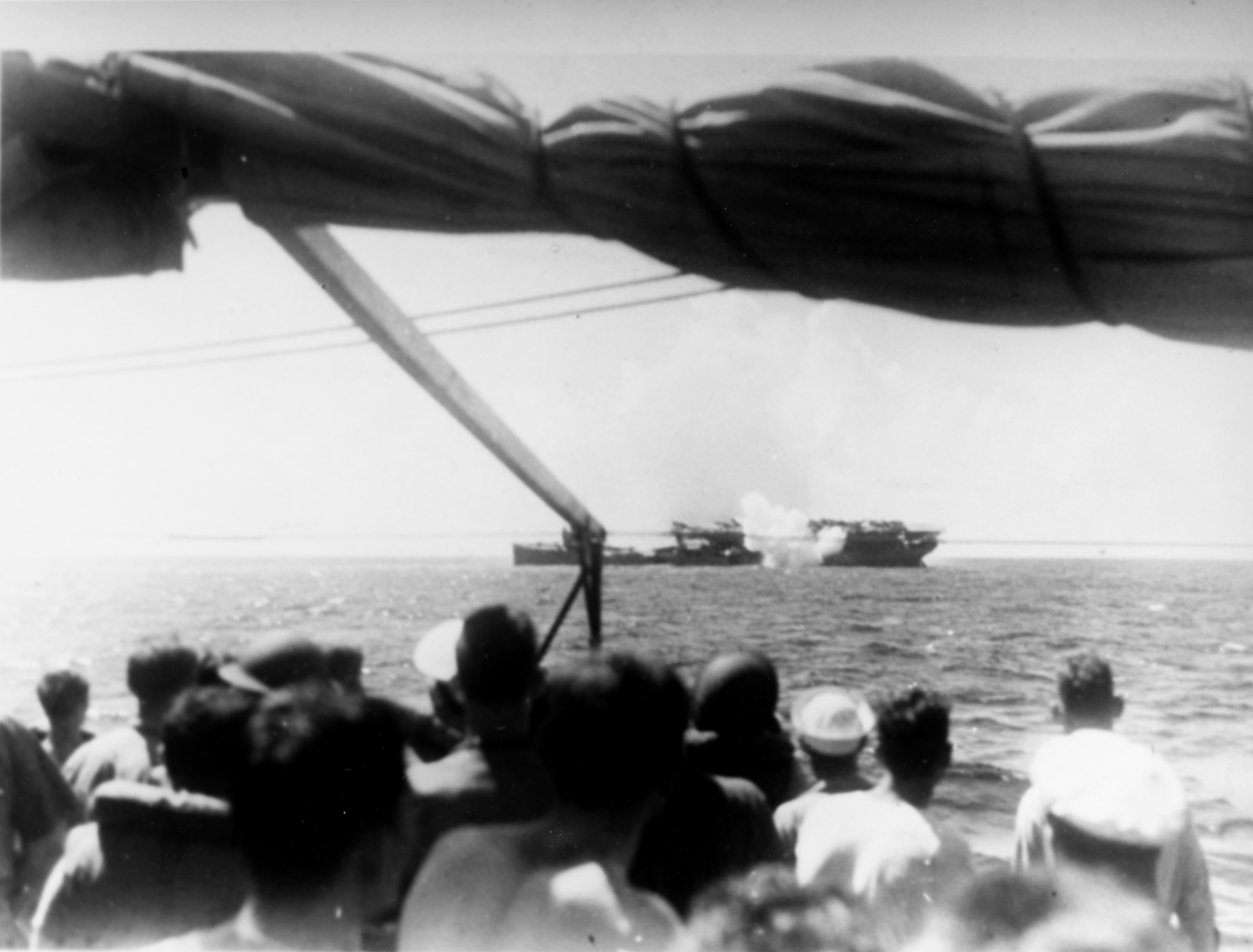 The U.S. seaplane tender USS Langley (AV-3) is torpedoed following fatal bomb damage from Japanese dive bombers, south of Java, 27 February 1942. The photo was taken from the destroyer USS Whipple (DD-217).